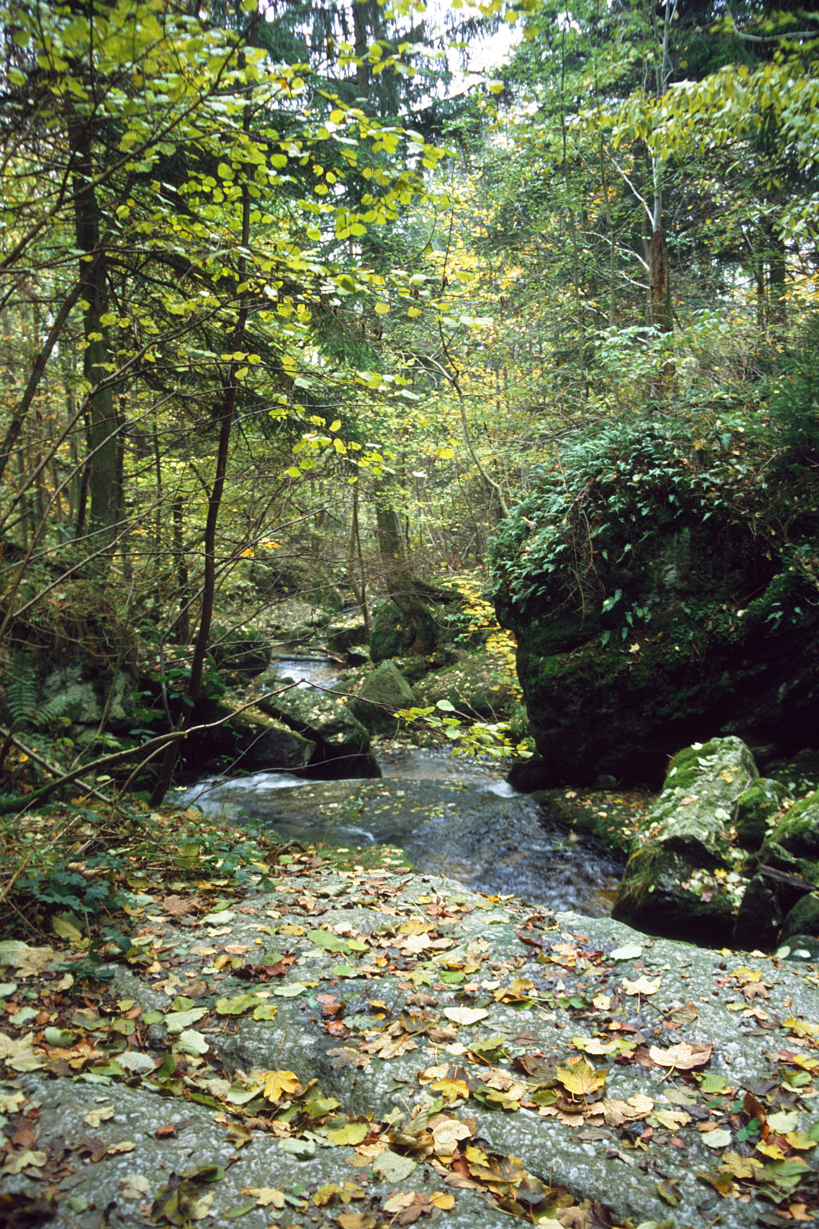 Ysperklamm gorge in the Waldviertel, Lower Austria